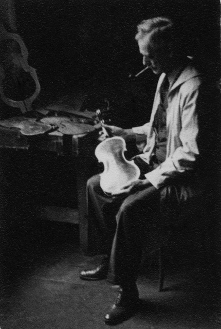 George Schuyler Hodges holds a violin he made.